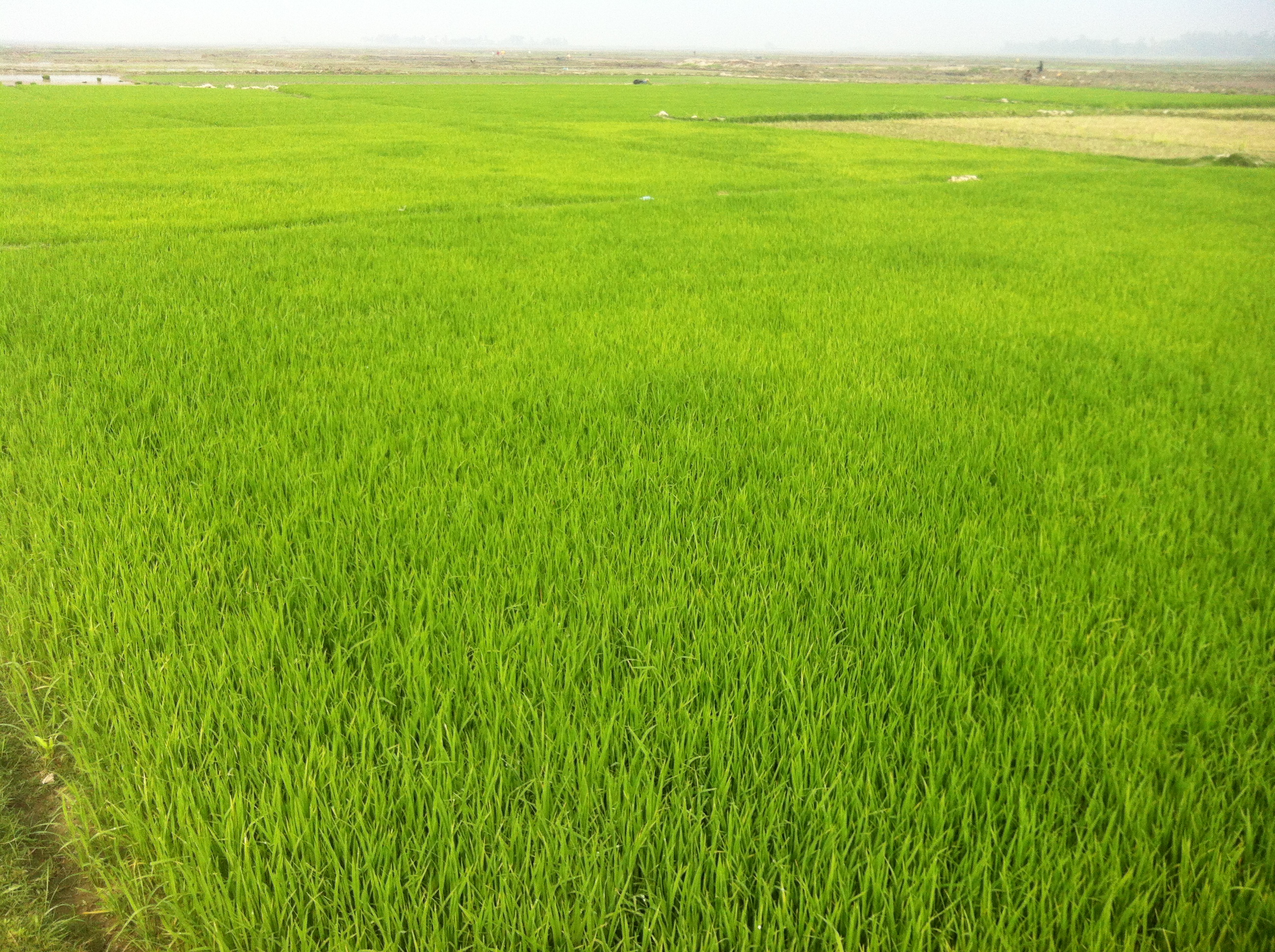 jagannathpur, sunamgonj,sylhet